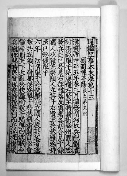 Page from Tongjian jishi benmo (通鑒紀事本末) by Yuan Shu (袁樞, 1132-1205)